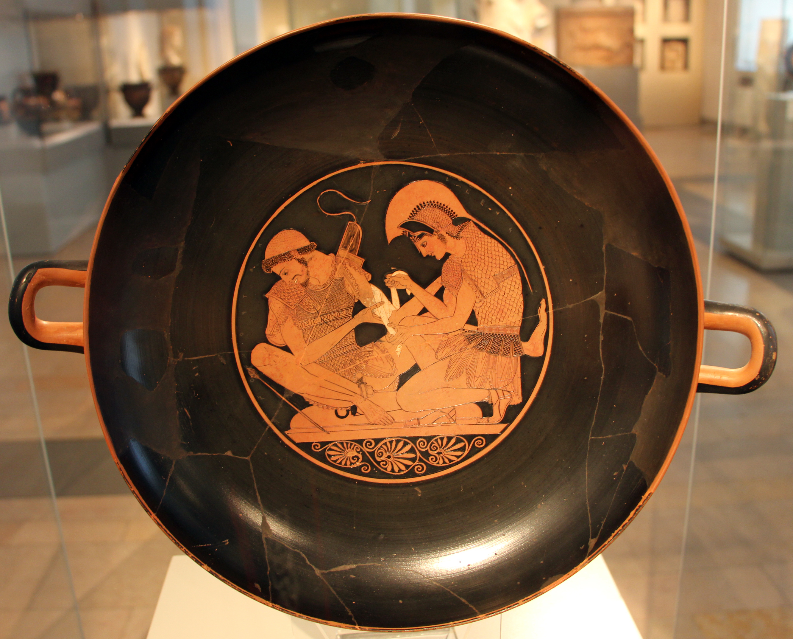 Ancient Greek pottery in the Antikensammlung Berlin